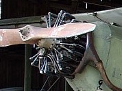 Armstrong Siddeley Panther aircraft engine on Blackburn Ripon IIF